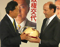 John Roos, Ambassador to Japan, met with Yukio Hatoyama, Member of the House of Representatives, at the Headquarters of Democratic Party of Japan in Chiyoda Ward, Tōkyō Metropolis, on September 3, 2009.